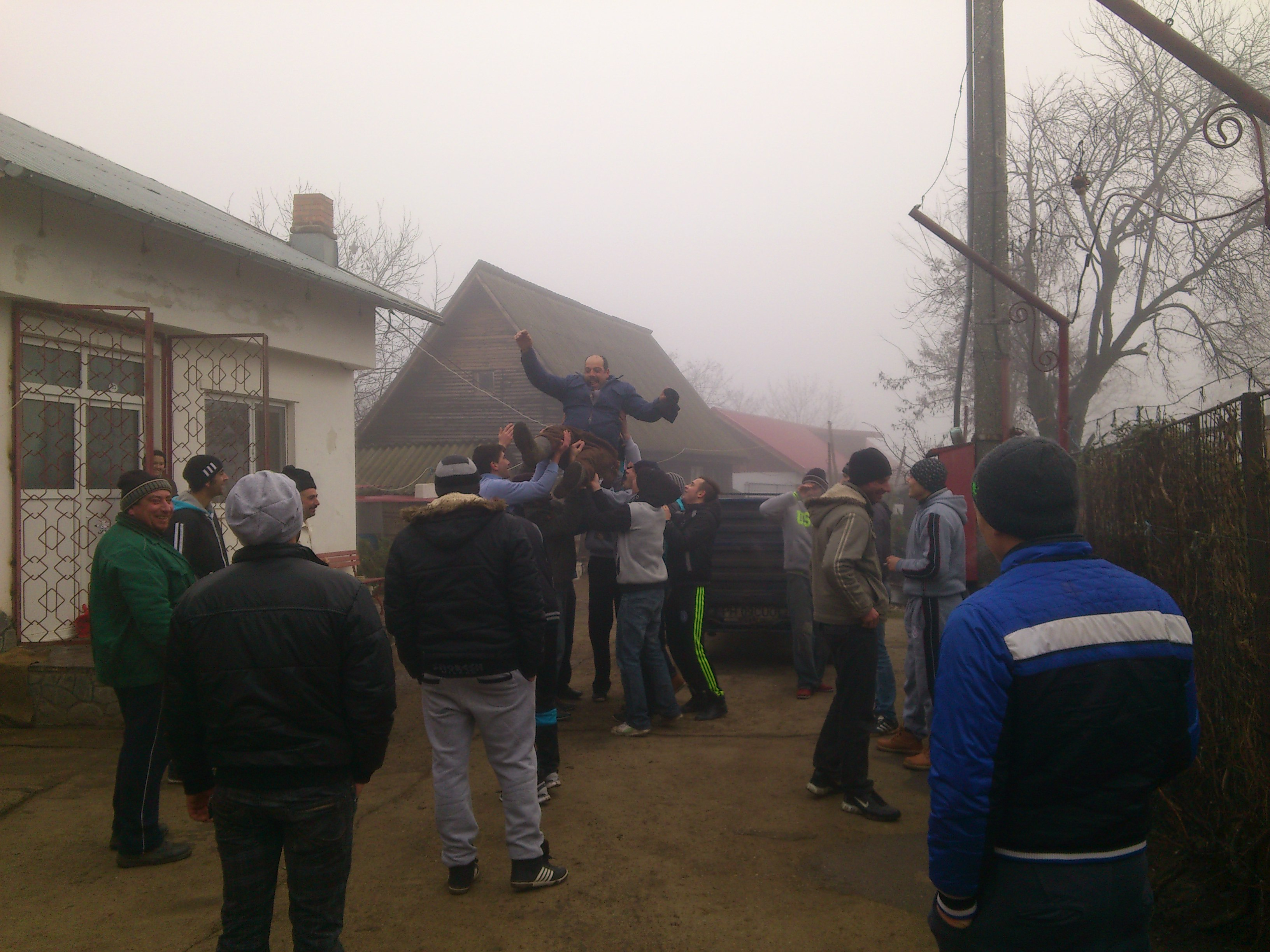 The Jordan